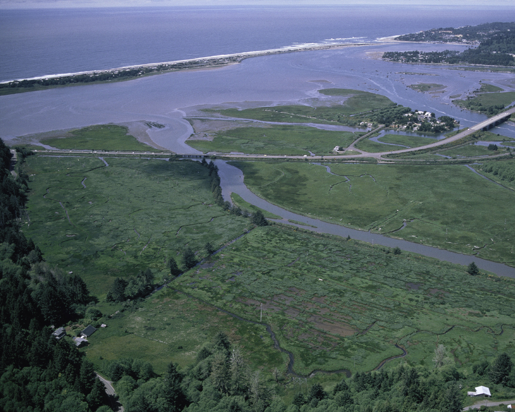 Siletz Bay National Wildlife Refuge, Oregon, USA